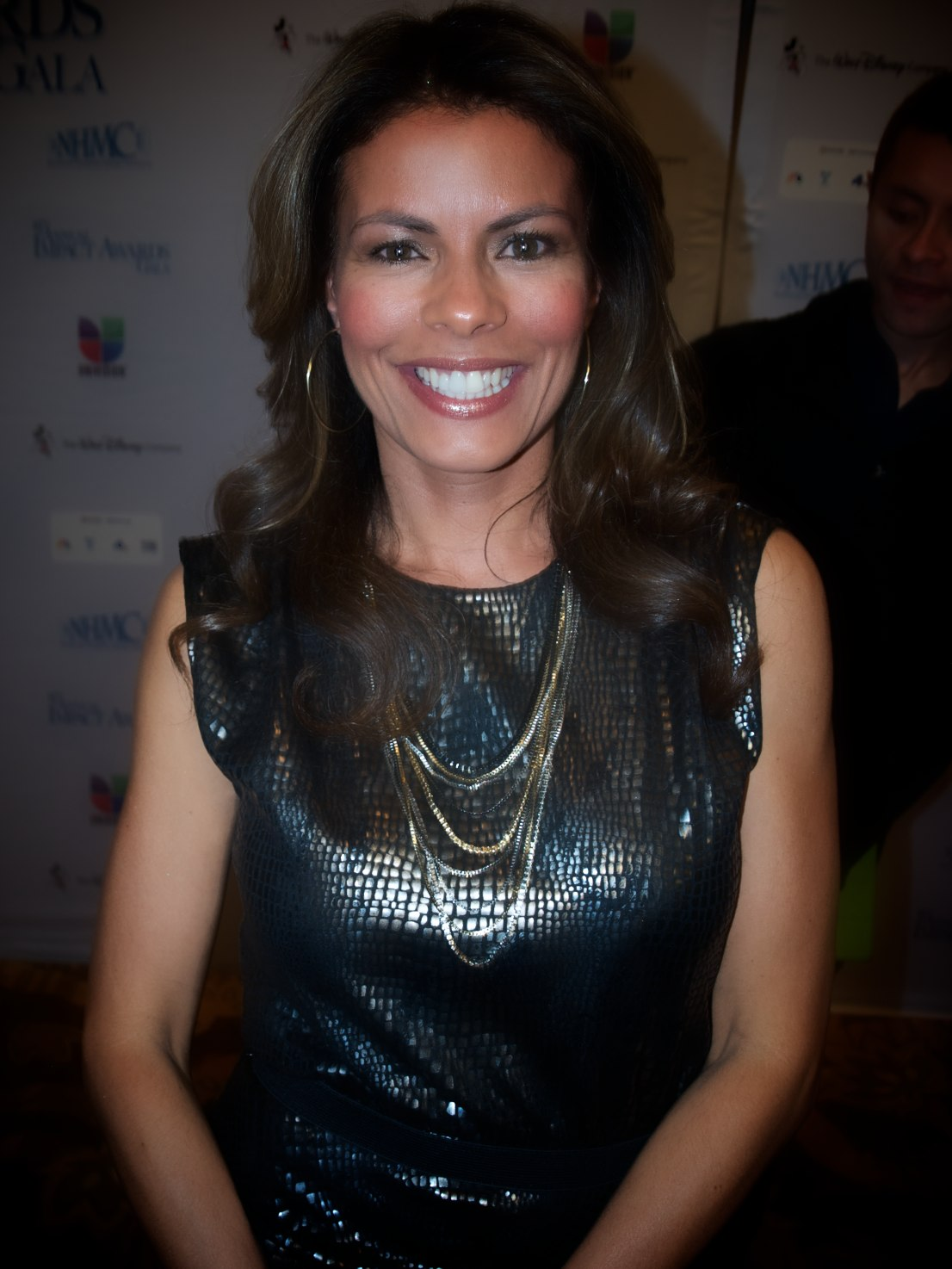 Lisa Vidal @ the National Hispanic Media Coalition 2012 Impact Gala